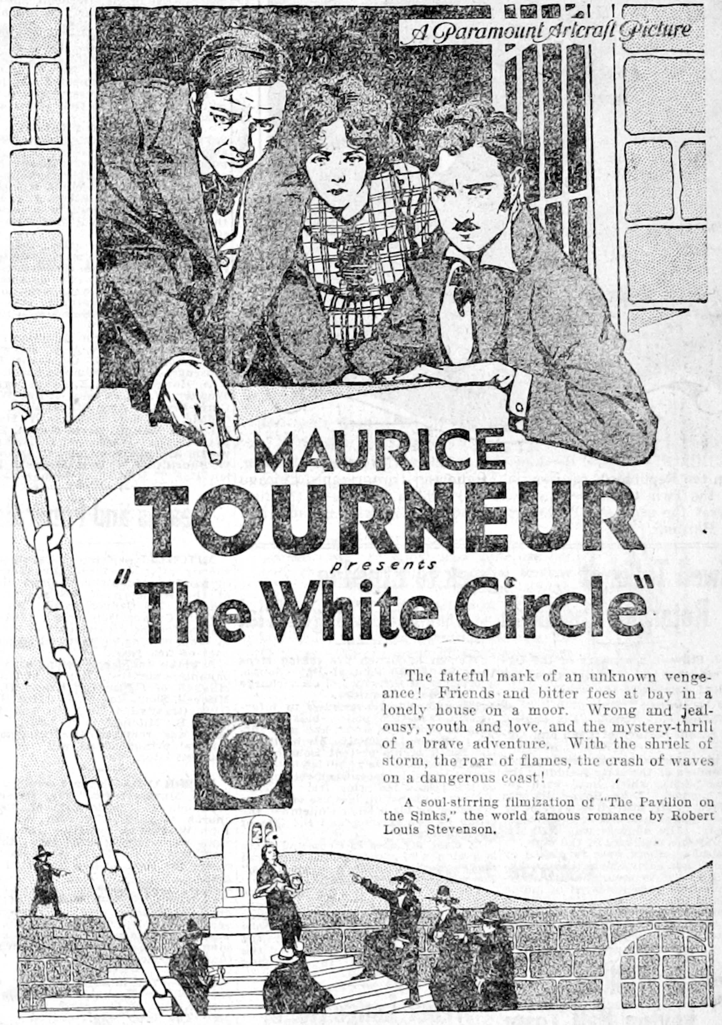 Newspaper advertisemant for the American drama film The White Circle (1920).